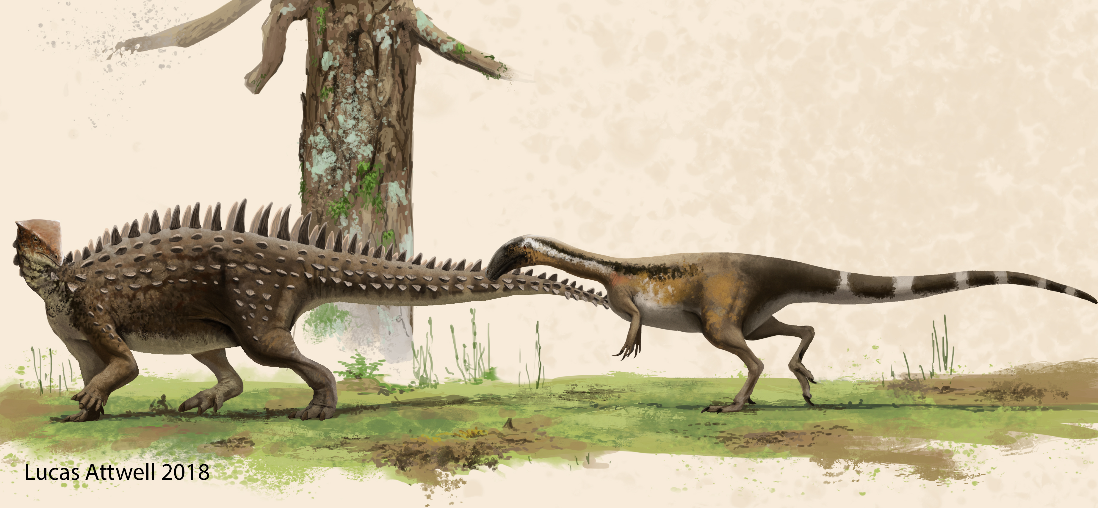 Emausaurus (Haubold, 1990), the basal thyreorphoran from Grimmen, Germany, found on lower Toarcian Layers, tries to defend itself from the Hagen Forest reported theropod ("A megalosaurid vertebra from the Lias of a north German boulder".F. v. Huene. 1966.). Emausaurus is based on fragmentary remais, while the Hagen theropod only on a vertebra, who made his nature unprecise, being cited as a saurischia indeterminate. Here, is depicted as a Ceratosauriform.